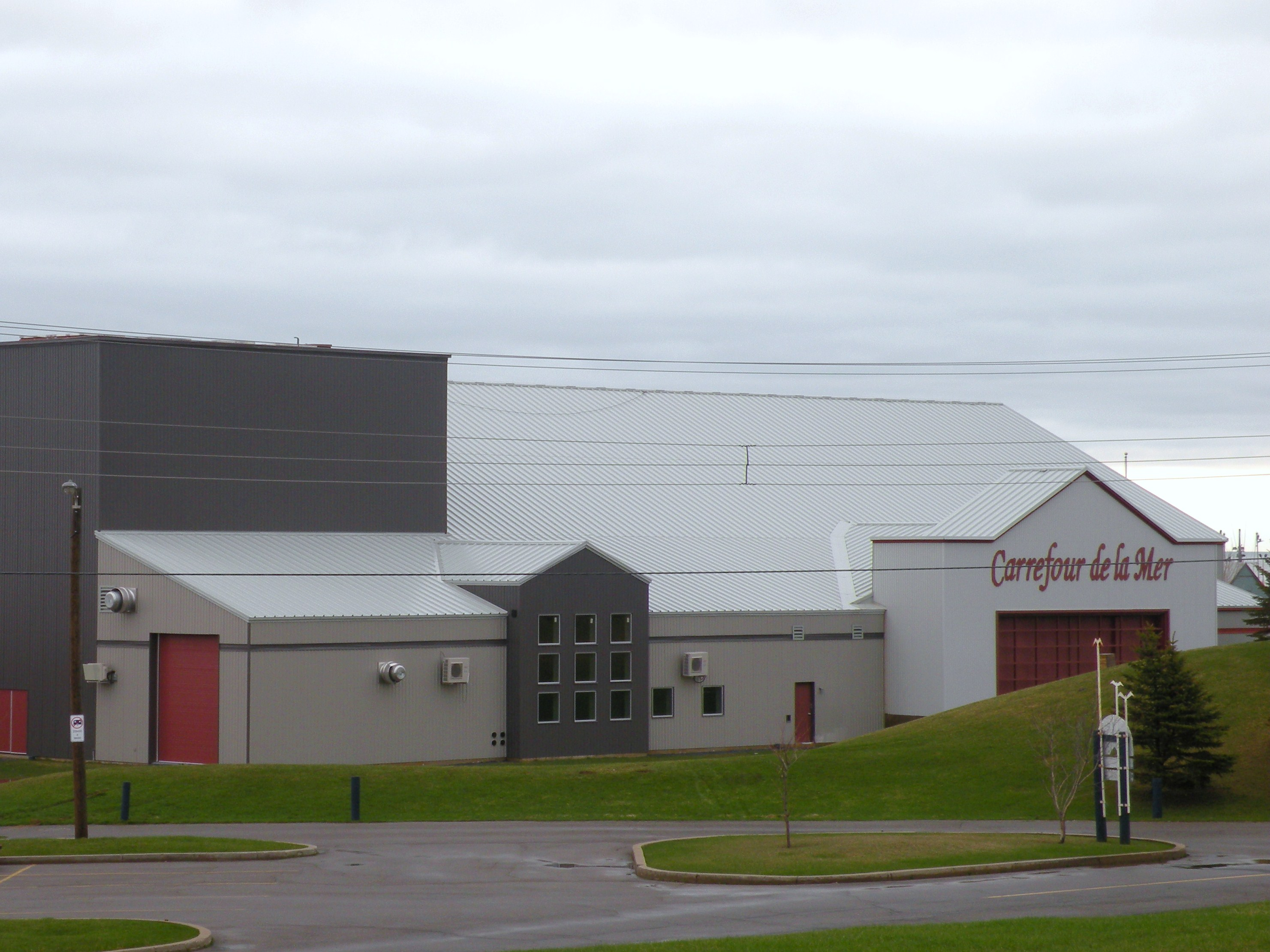 Carrefour de la Mer in Caraquet, New Brunswick, Canada.